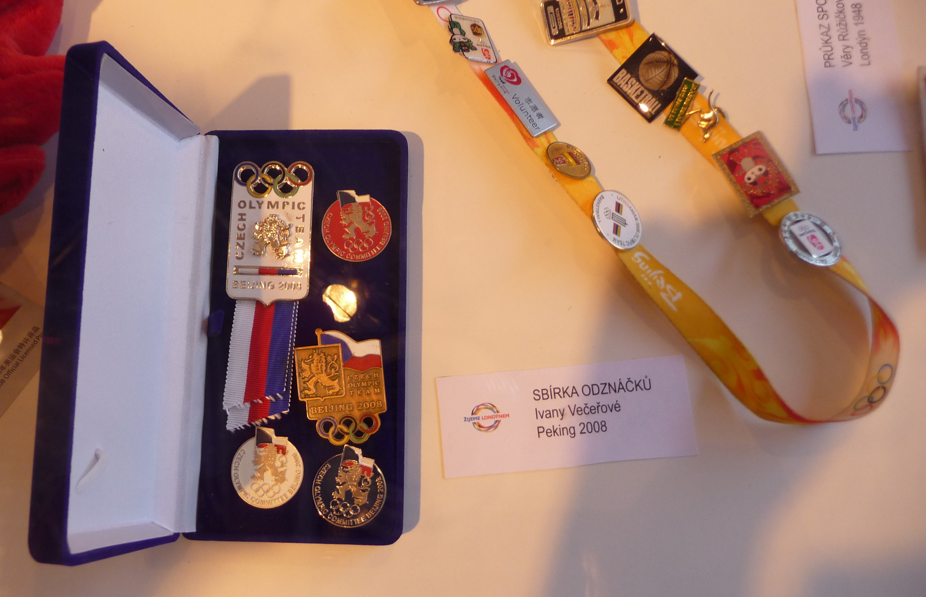 Badges of Ivana Večeřová from Beijing 2008, Žijeme Londýnem, Freedom Square, Brno